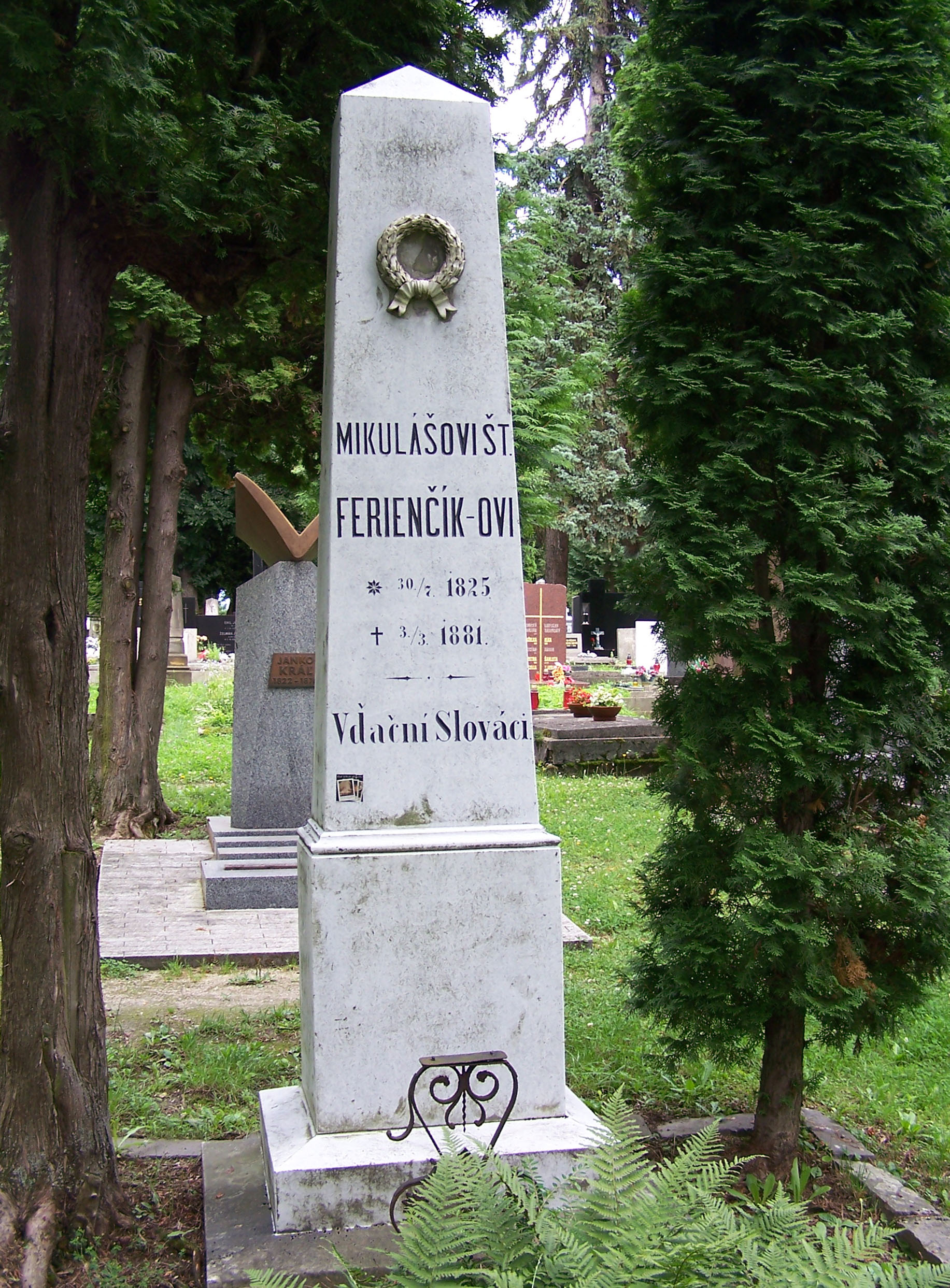 Grave of Mikuláš Štefan Ferienčík at the National Cemetery in Martin, Slovakia